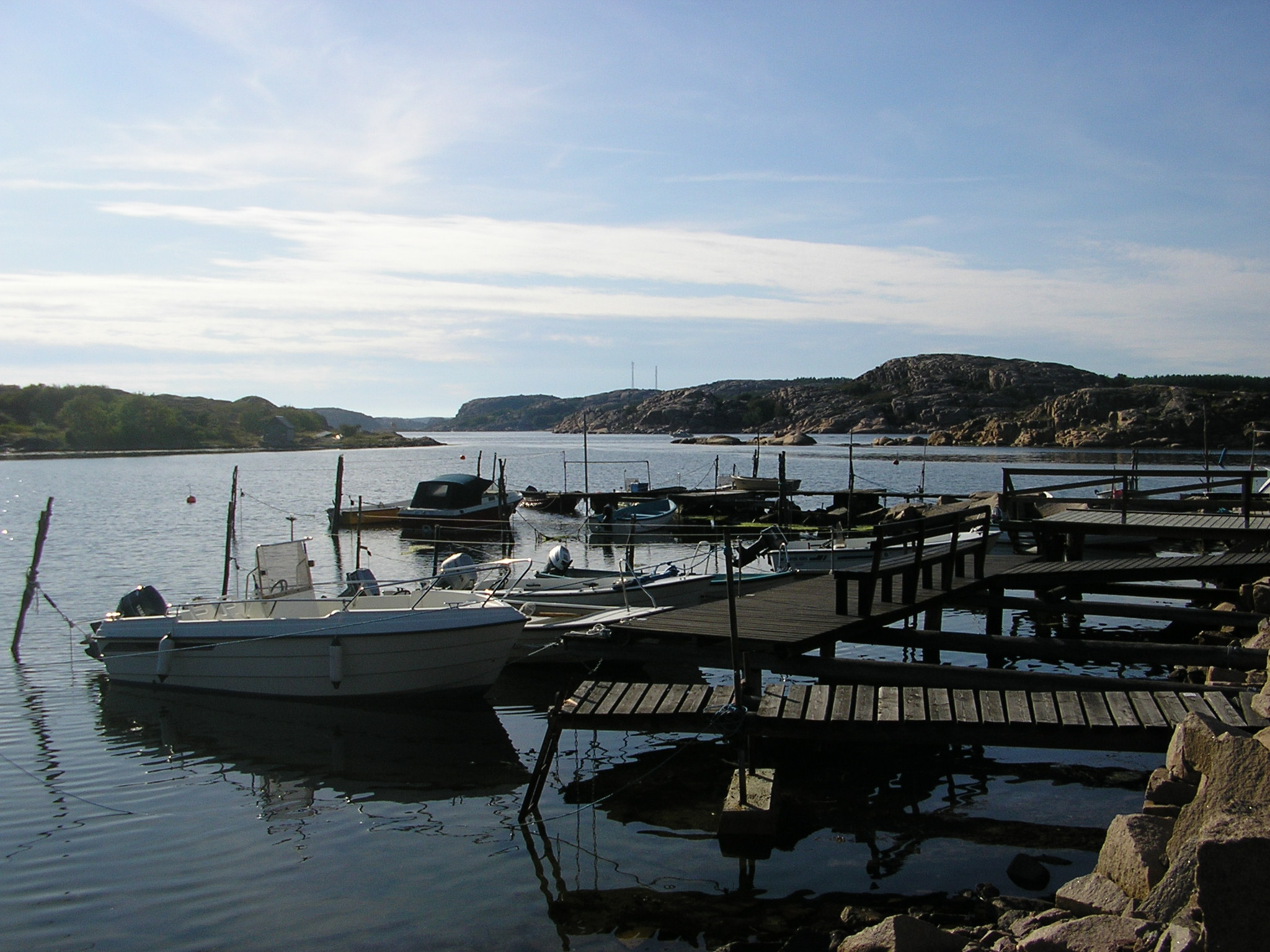 Mouth of Åbyfjorden (Bohuslän, Sweden), seen from Slävik, with Bohus-Malmön in the background.